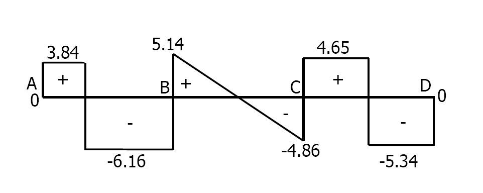 Shear force diagram, to be used for an example of the 모멘트 분배법(moment distribution method).